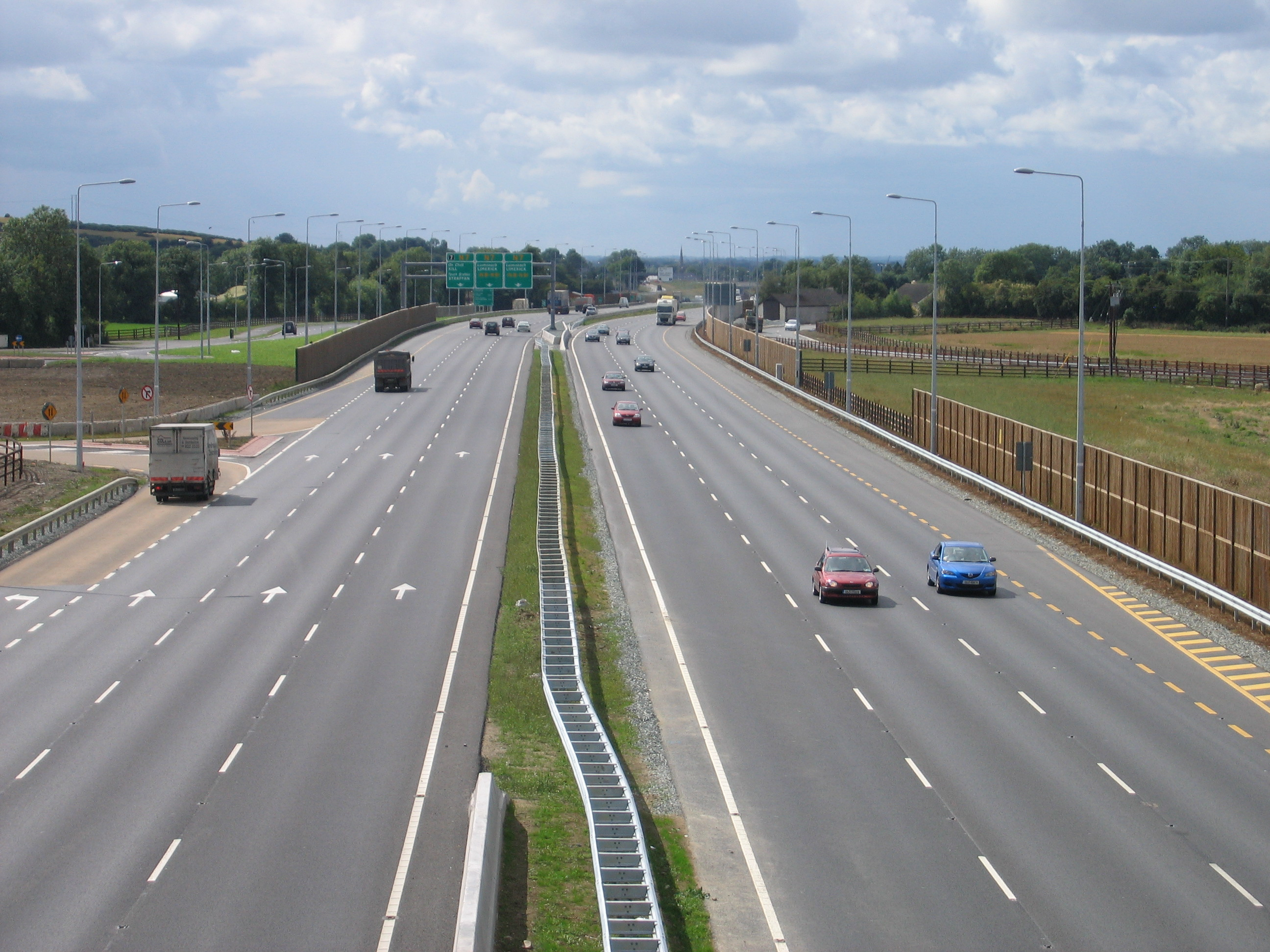 Naas Road, also called N7 road, after upgrade; looking south from overbridge at Junction 6.